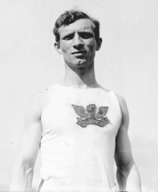 Courtesy of the Chicago Historical Society. Taken in 1904 Myer Prinstein, wearing the Winged Fist of the Irish American Athletic Club in 1904 Copyright: Expired Credit: unknown